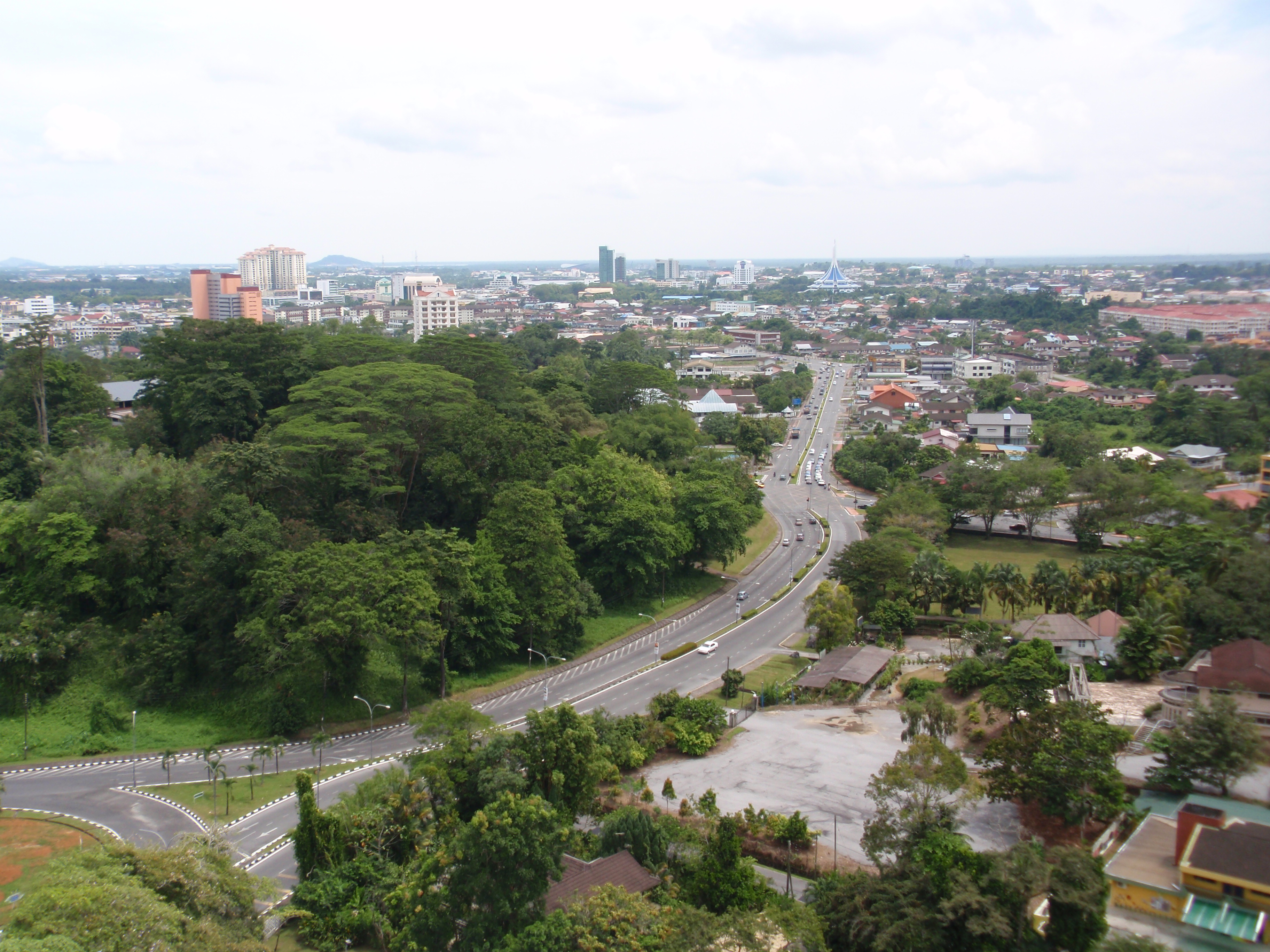 In the background you can see some tall office buildings and condos near the city centre.